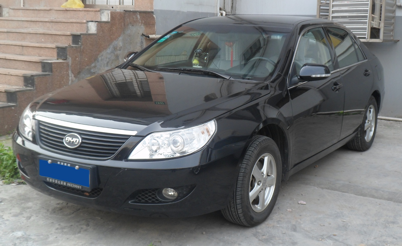 BYD F6 photographed in Shanghai, China.